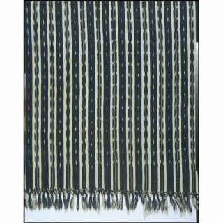 Rebozo, 1875-1890, V&A Museum no. T.21-1931 Techniques: Plain weave cotton, with an ikat warp Place: Mexico (probably) Dimensions: Length 91 in, Width 30 in The resist-dyed pattern in some of the warp threads is known as jaspe and was a popular way of decorating fabric used for shawls and for skirts. Shawls such as this would have been woven commercially on a treadle loom (introduced by the Spaniards in the 16th century) and would have been sold by merchants in village markets.